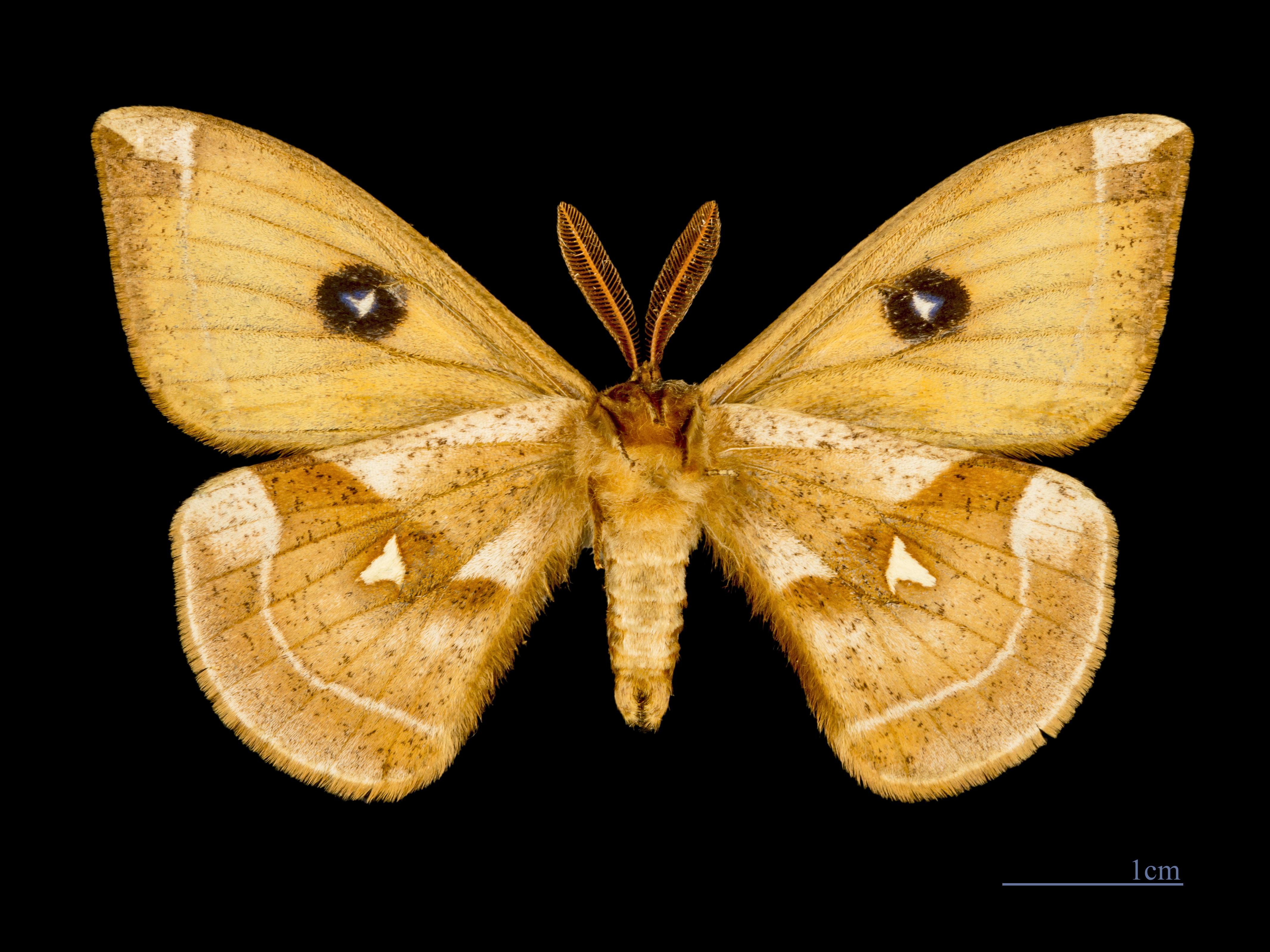 Tau Emperor, △ Ventral side.